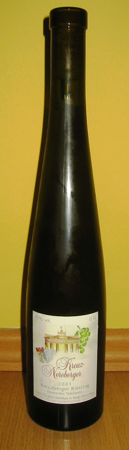 0.5-liter wine bottle, "Kreuz-Neroberger" of Kreuzberg in Berlin Kreuzberg (Germany). This is a Riesling from the vintage 2010th